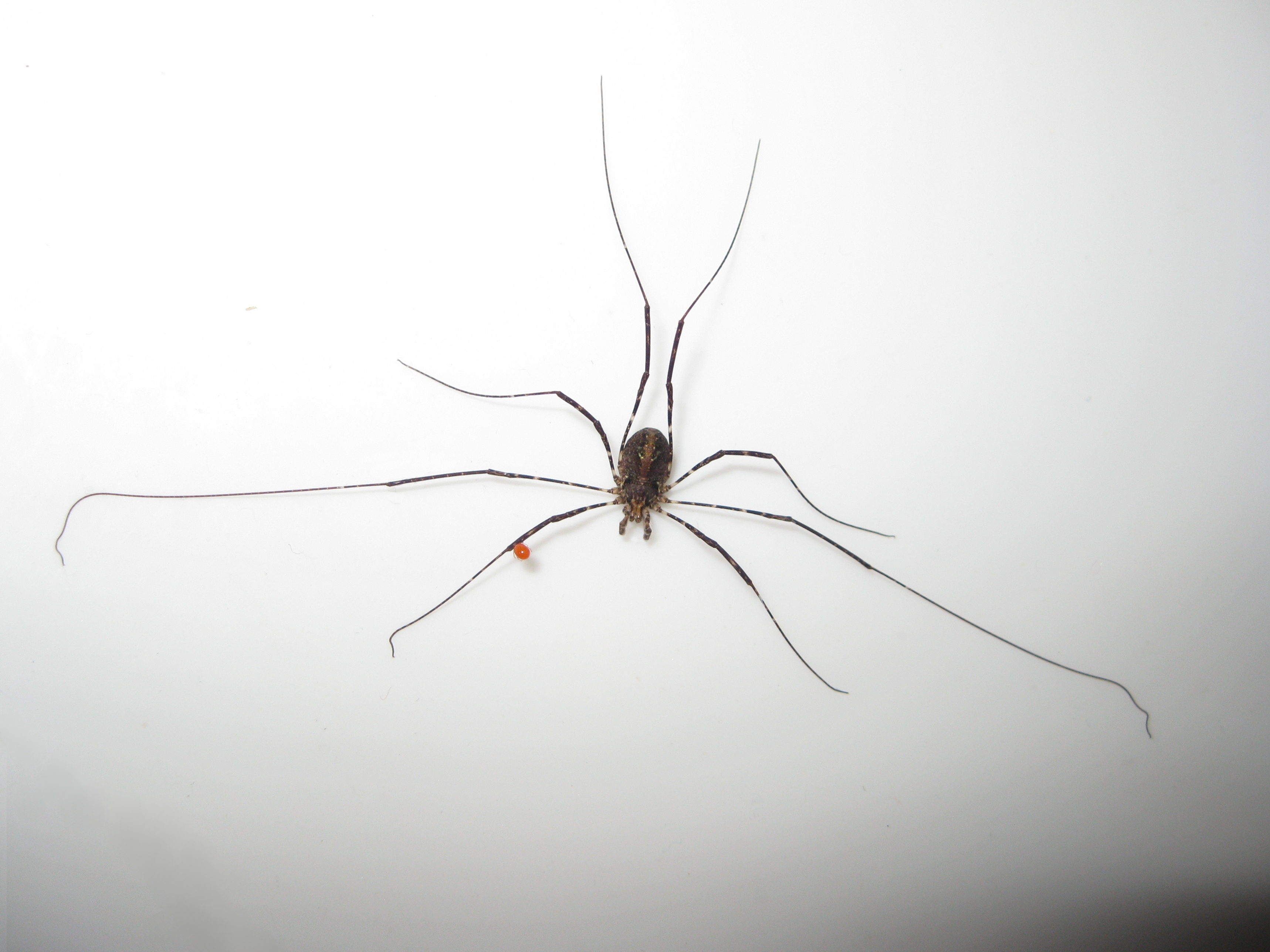 Long legged harvestman with Erythraeidae parasitic larva attached. Karori, Wellington, New Zealand.